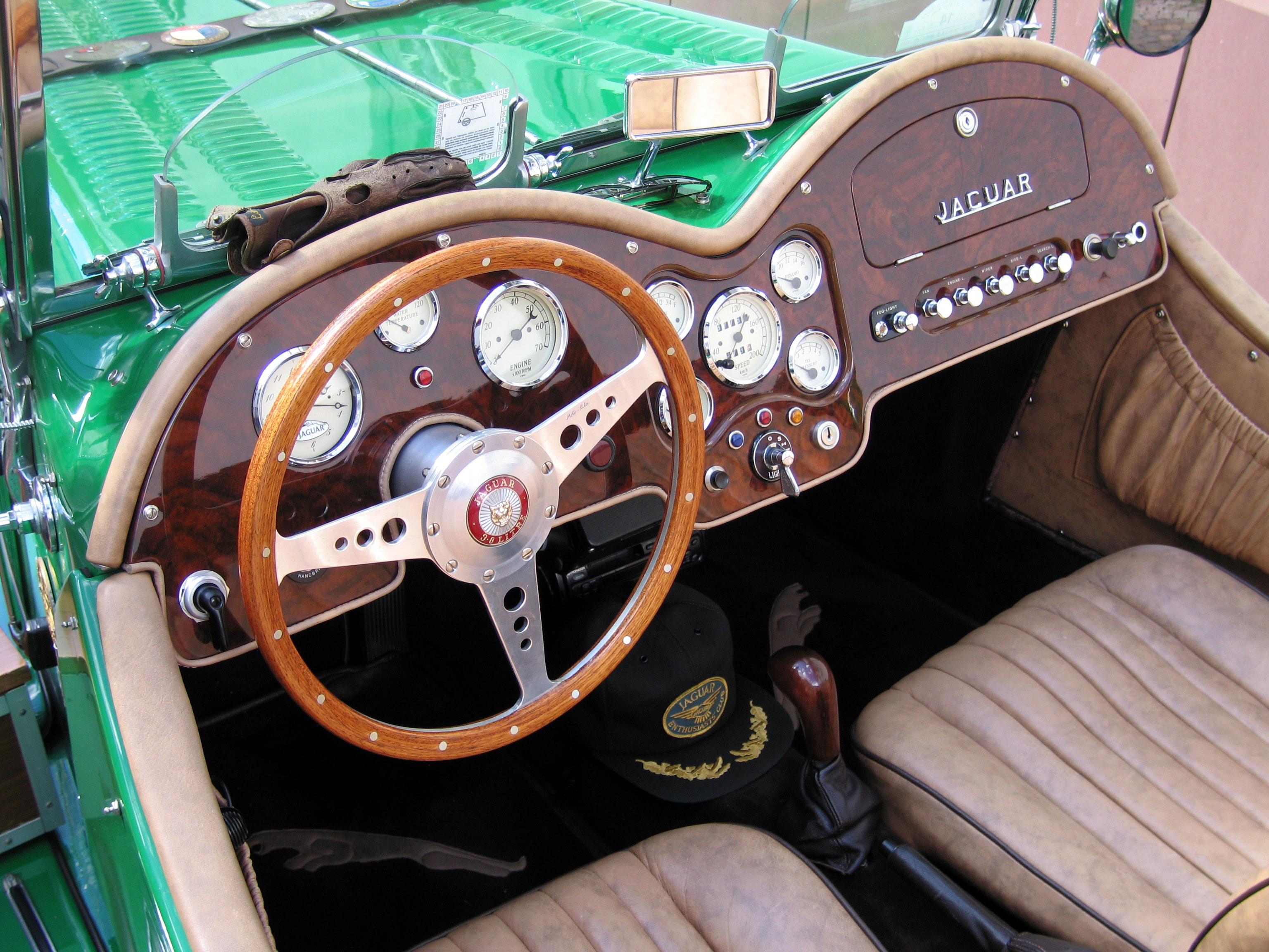 Panther J72 Cockpit